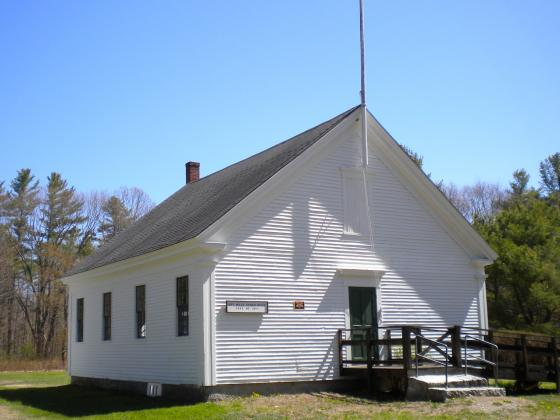 Exterior of the last one room schoolhouse of twelve that were built in Gray, Maine.